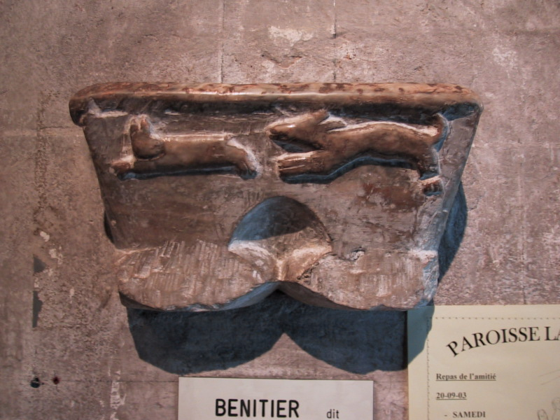 Holy water font for Cagots in Oloron cathedral in the French province of Bearn